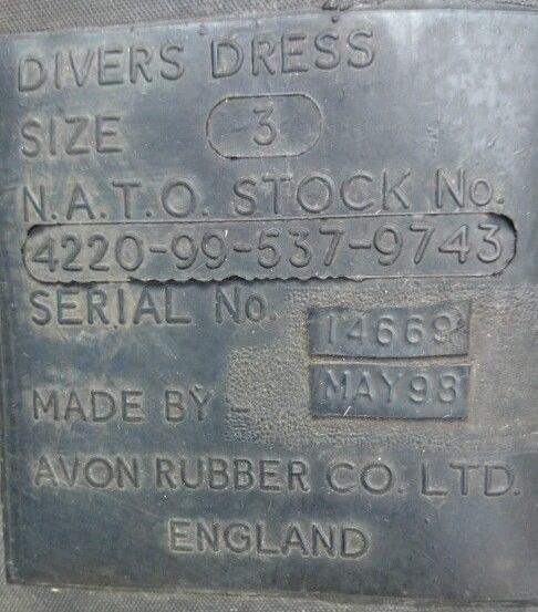 Rubber label attached to "diver's dress" (dry suit) indicating the article's NATO stock number, serial number, commissioning date and manufacturer (Avon Rubber Co. Ltd., England).